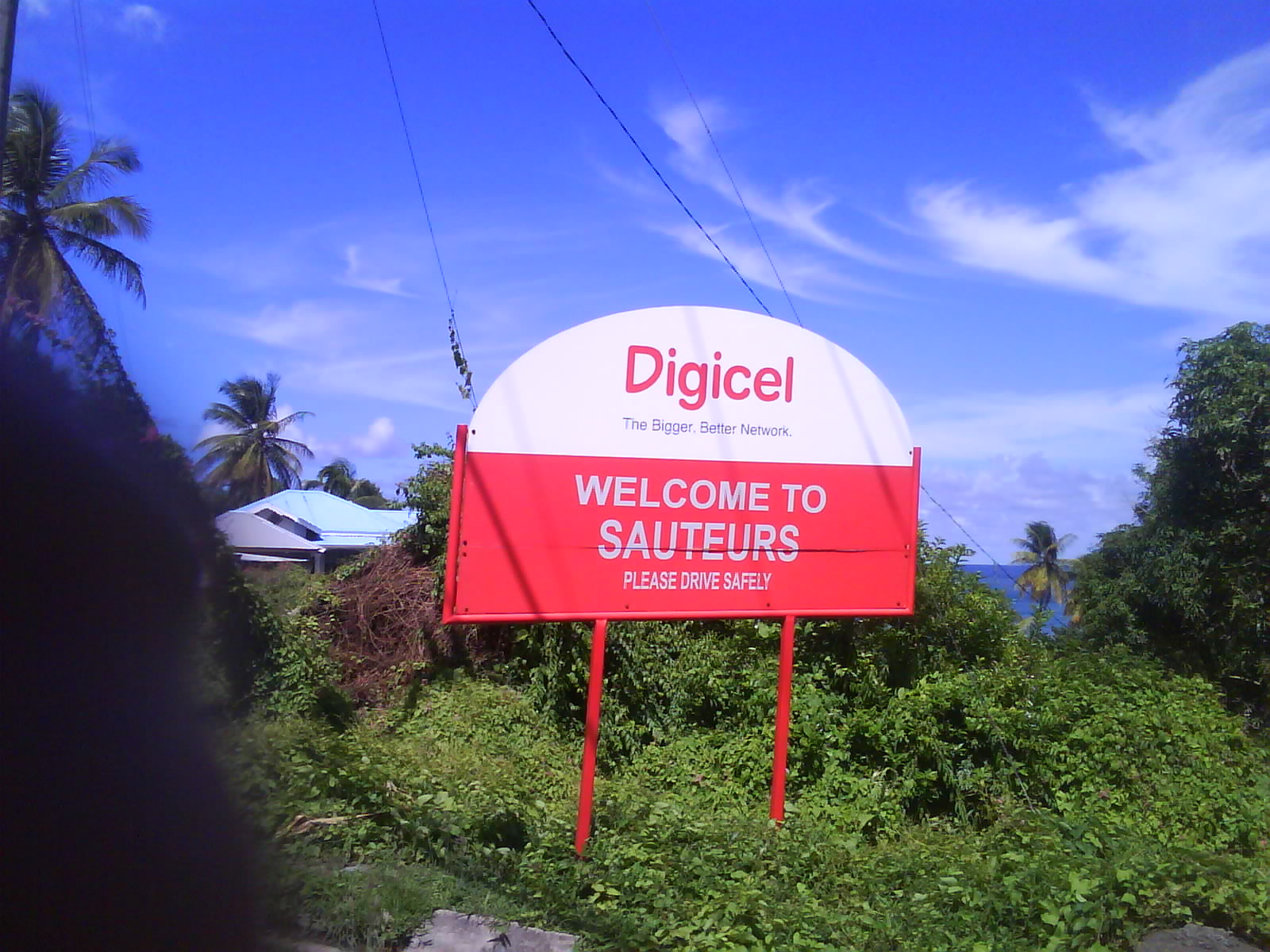 sauteurs welcome sign